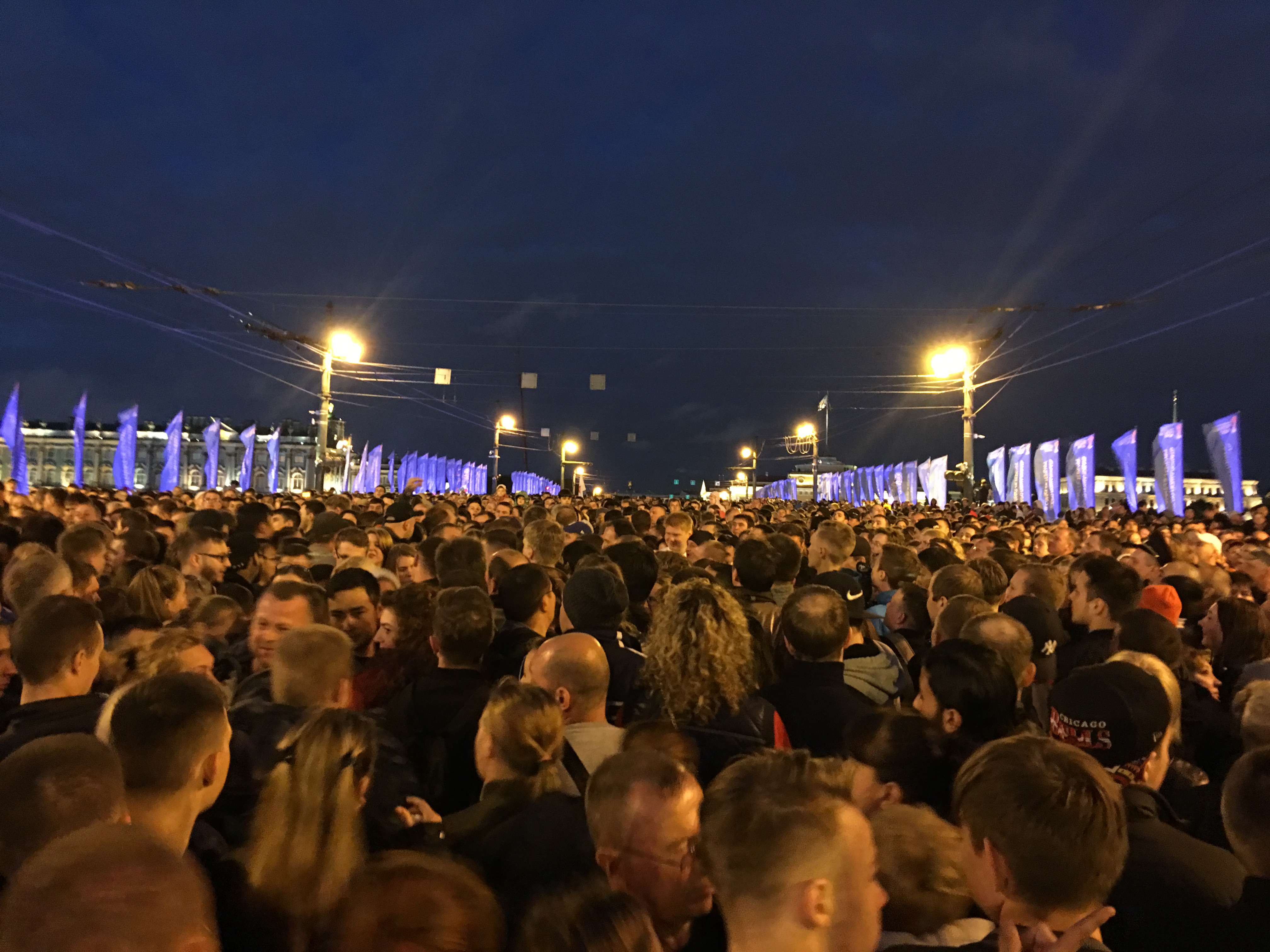 Bridg traffic after the end of the Scarlet Sails celebration on June 24, 2017, at 1:10 AM